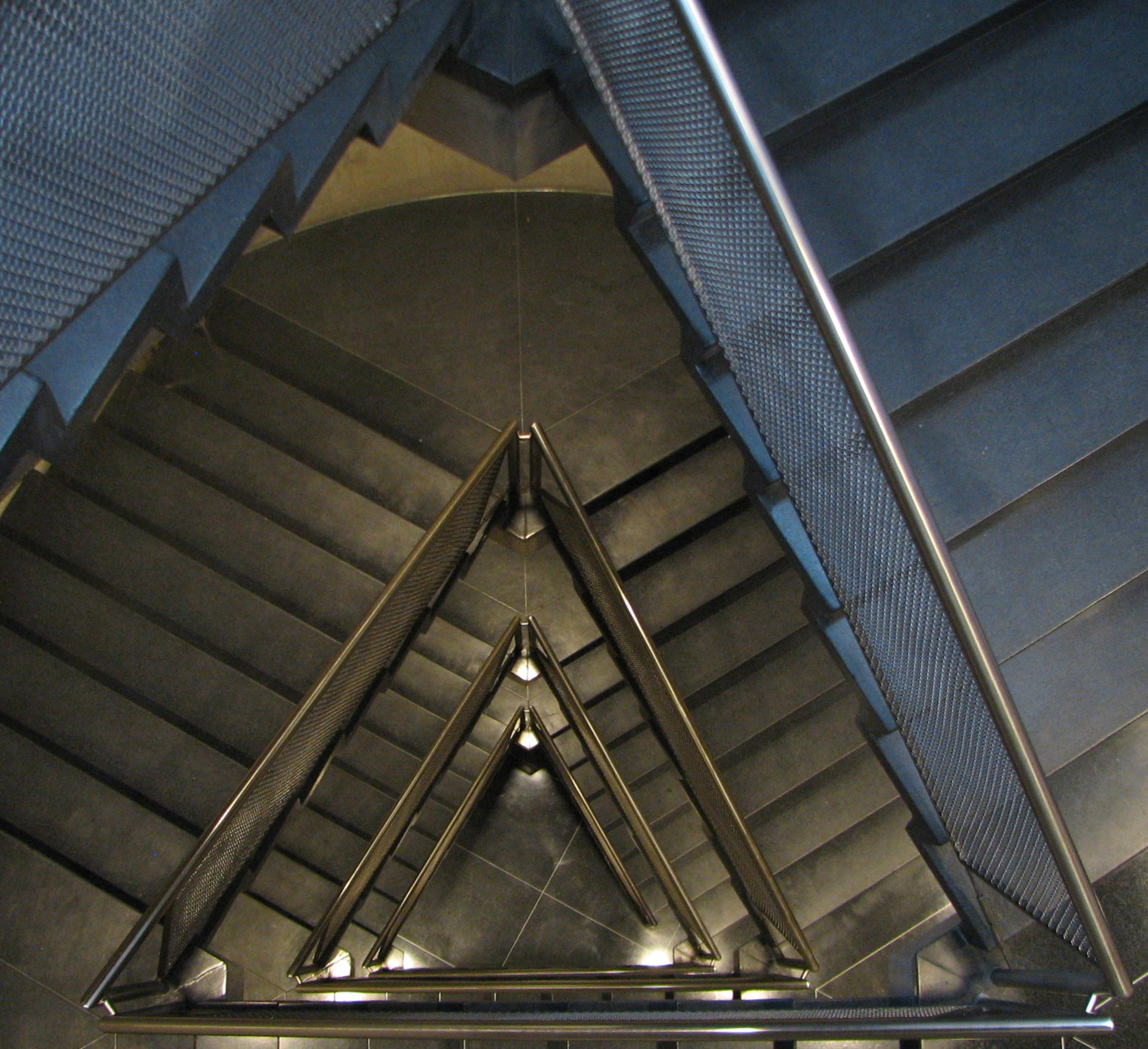 A stairwell in the Yale University Art Gallery, designed by Louis Kahn.